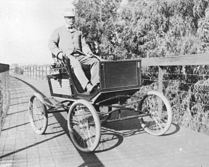 On back of photograph: "Horace M Dobbins in his Olsdmobile [sic] on Pasadena Cycleway - about 1902 - 4"; used "Standard Catalog of American Cars 1805-1942" by Beverly Rae Kimes and Henry Austin Clark, Jr.(1996) to verify this is an Oldsmobile, but model was not found; vehicle in photo closely resembles steam Locomobile from 1900-1904